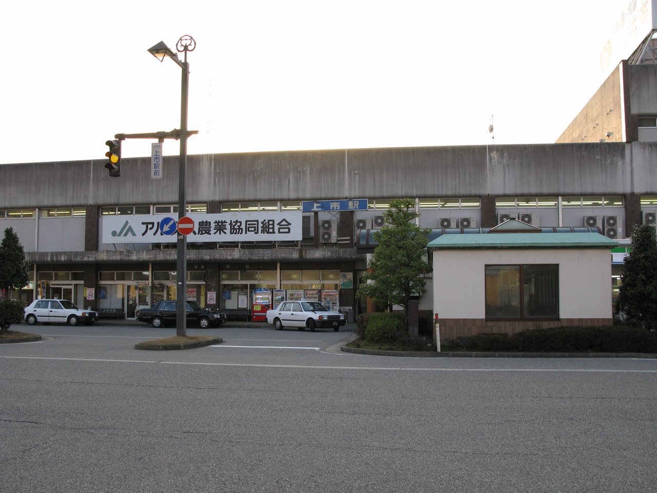 Toyama Chiho Railway Kamiichi Station